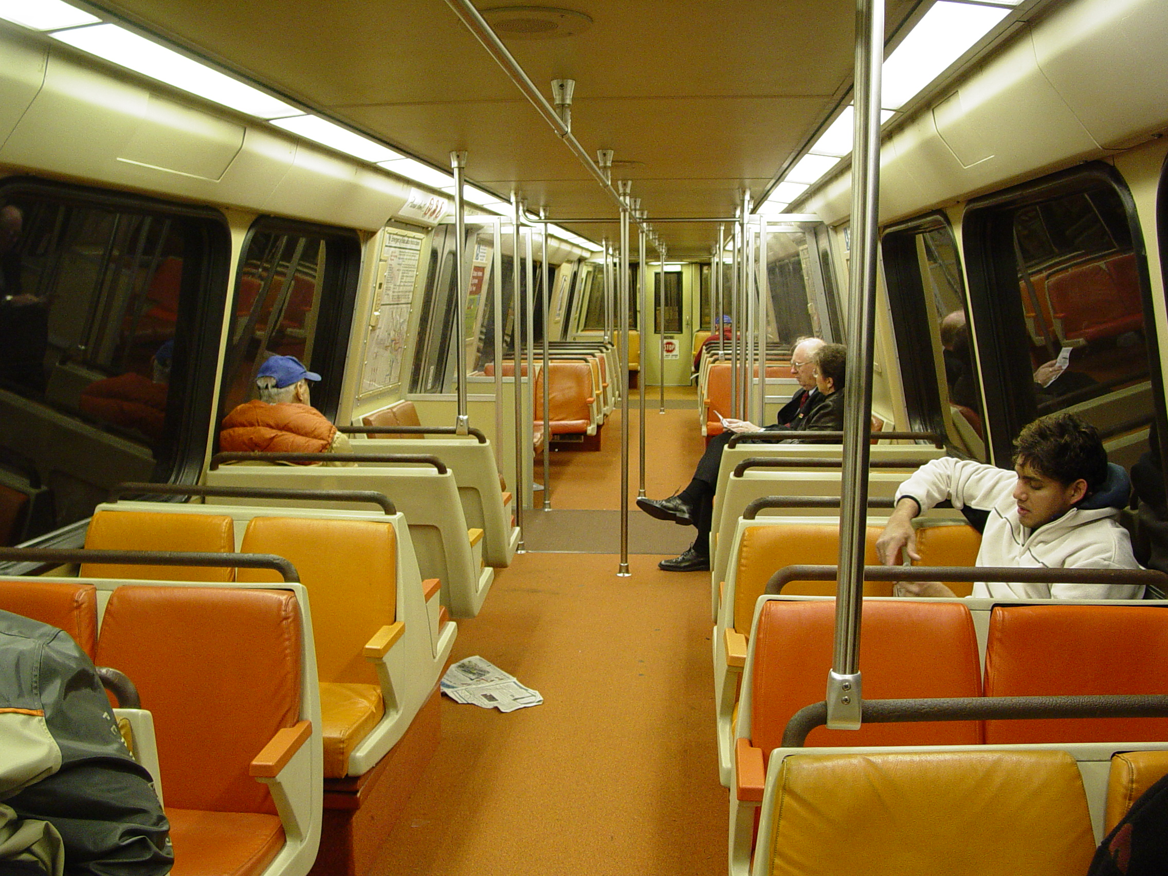 Interior of Breda 4018 on the Washington Metro.